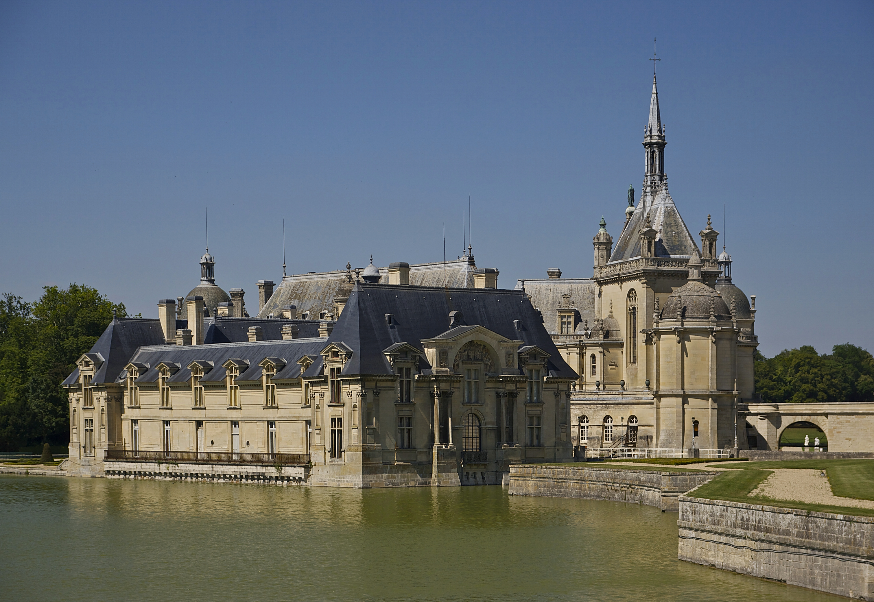 The Château de Chantilly, as seen from south.